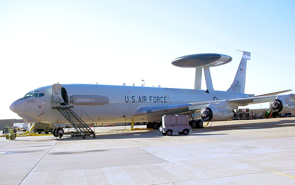 The first E-3 Sentry, or Airborne Warning and Control System aircraft to receive the block 40/45 upgrade sits Nov. 18, 2010, outside the programmed depot maintenance hangar at Tinker Air Force Base, Okla., awaiting pre-checks prior to PDM and the installation of the upgrade. (Courtesy photo)